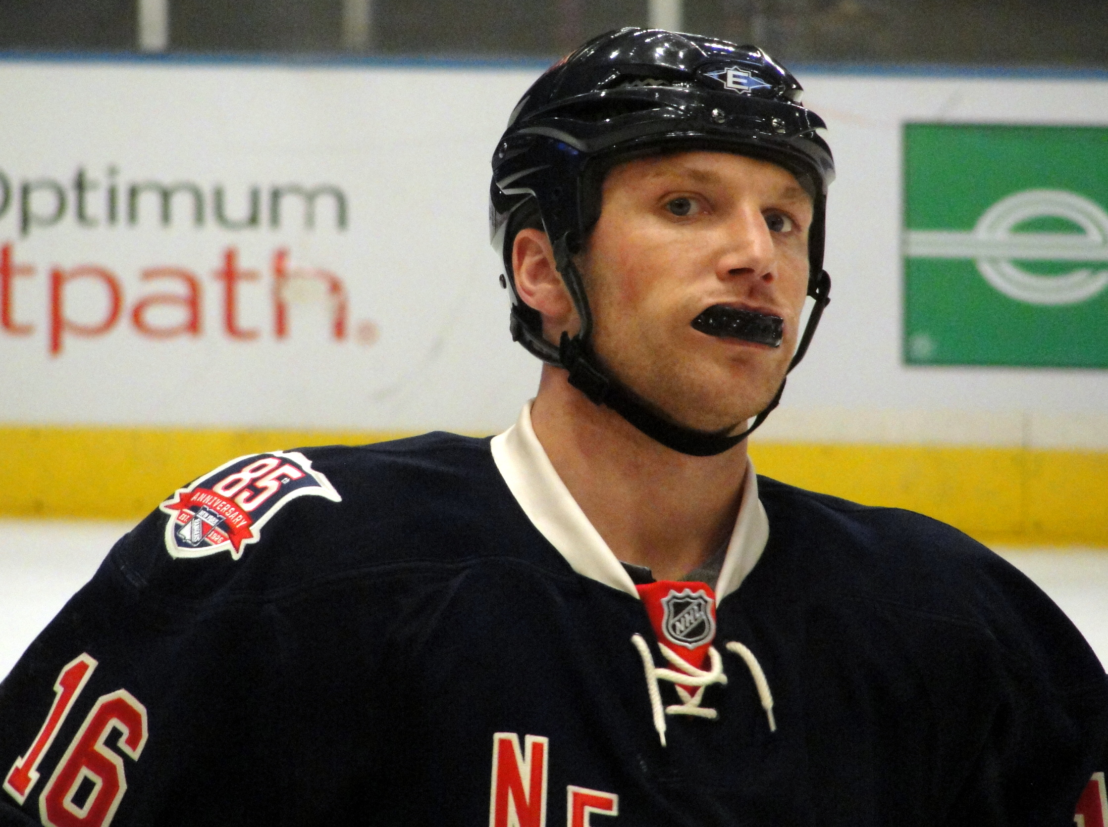 New York Rangers forward Sean Avery during a February 13, 2011 game against the Pittsburgh Penguins at Madison Square Garden.